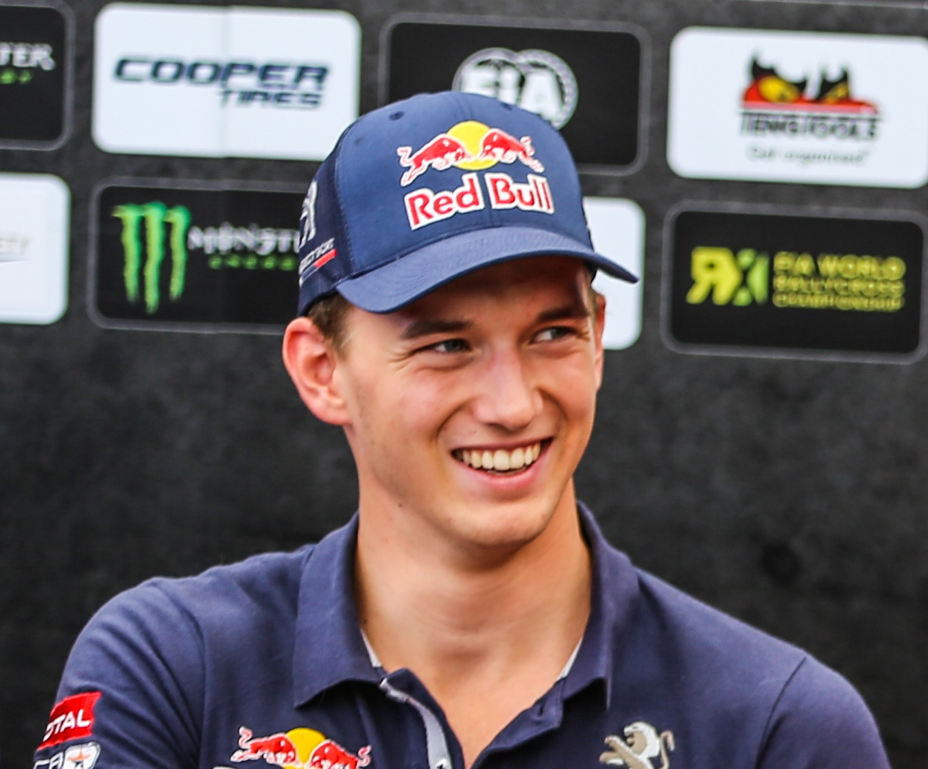 Timmy Hansen at a drivers' press conference at Round 6 of the 2015 FIA World Rallycross Championship at Höljesbanan, Sweden.